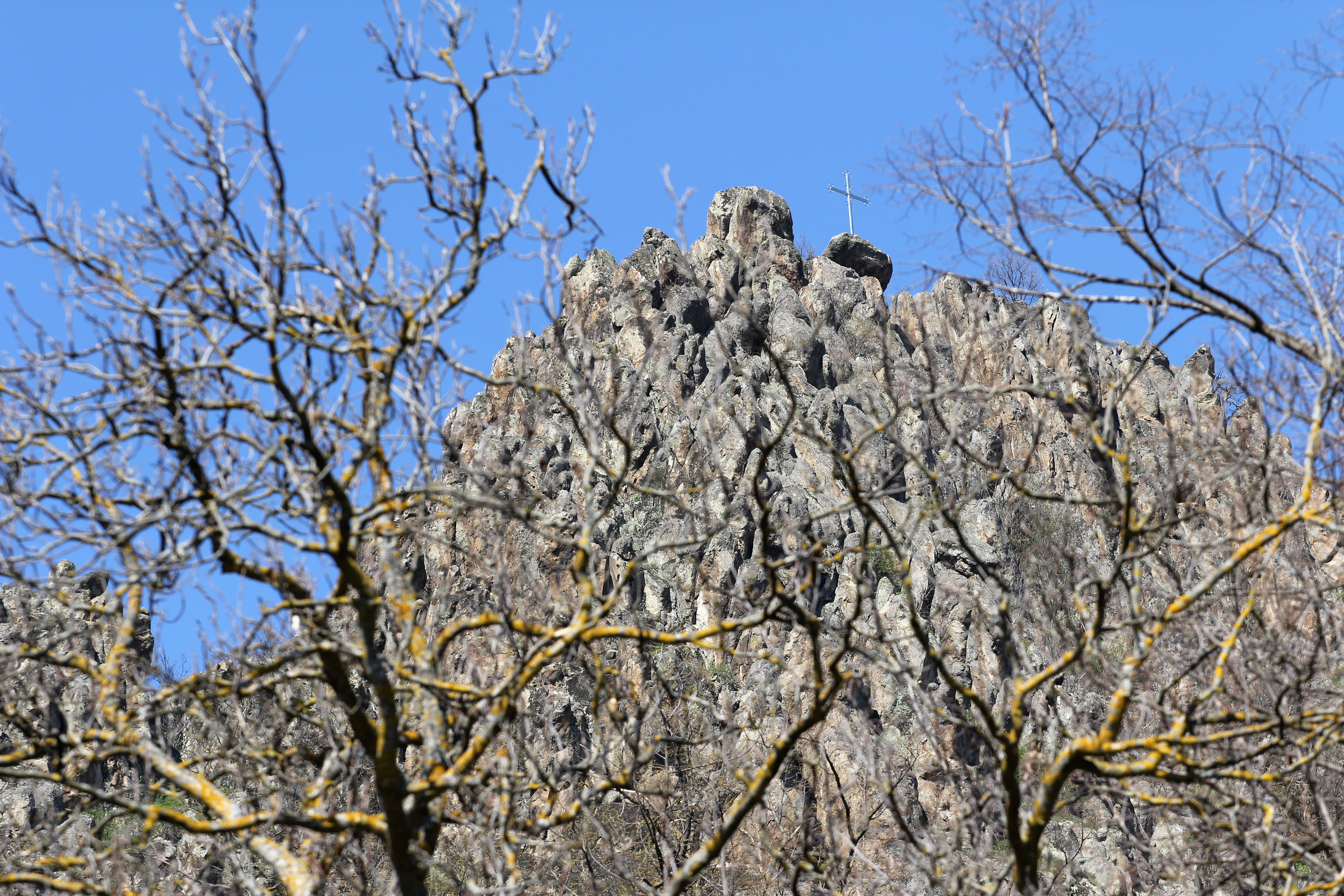 Borac karst, the village of Borac (the municipality of Knic), Serbia.